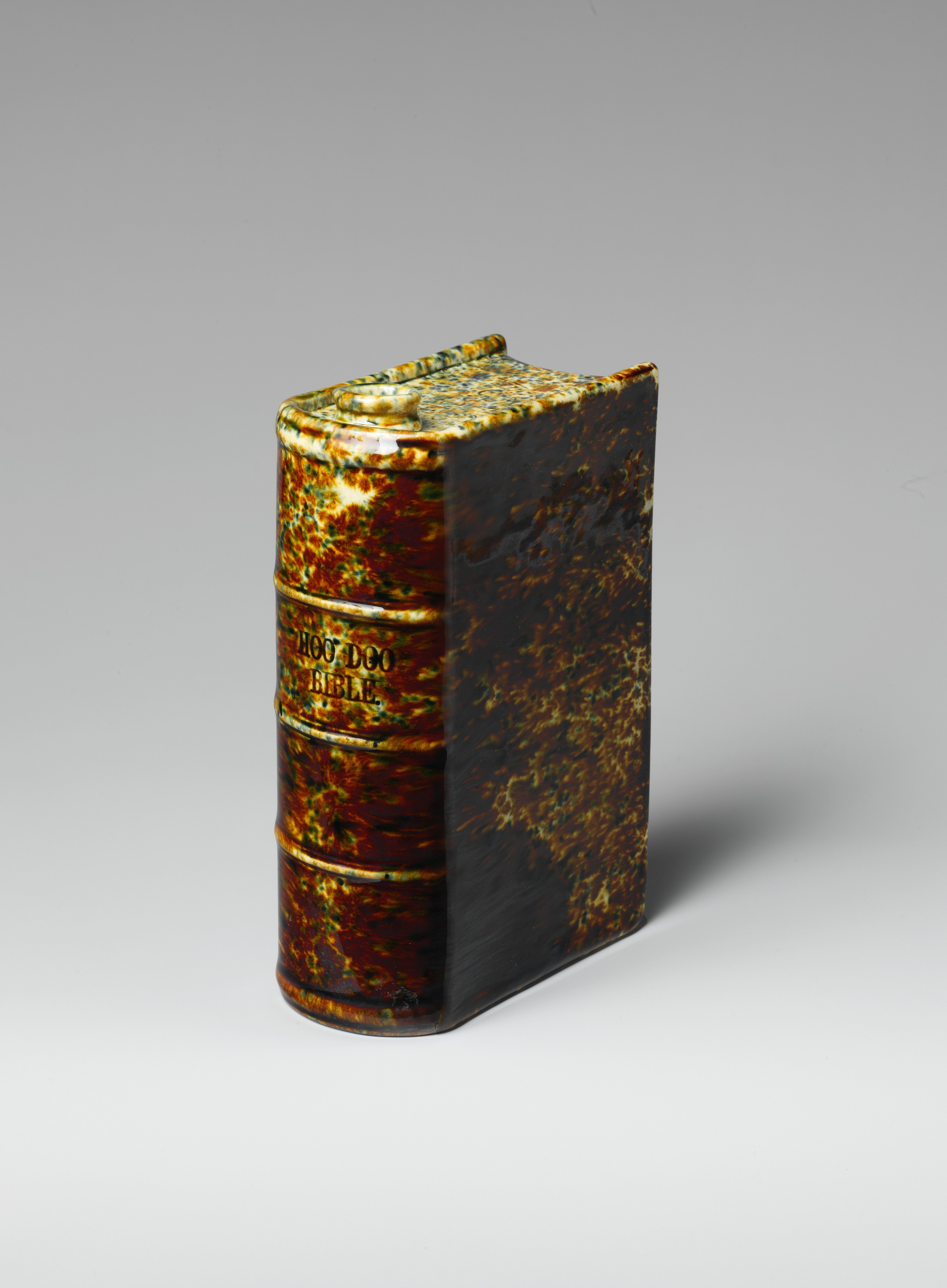 American; Flask; Ceramics